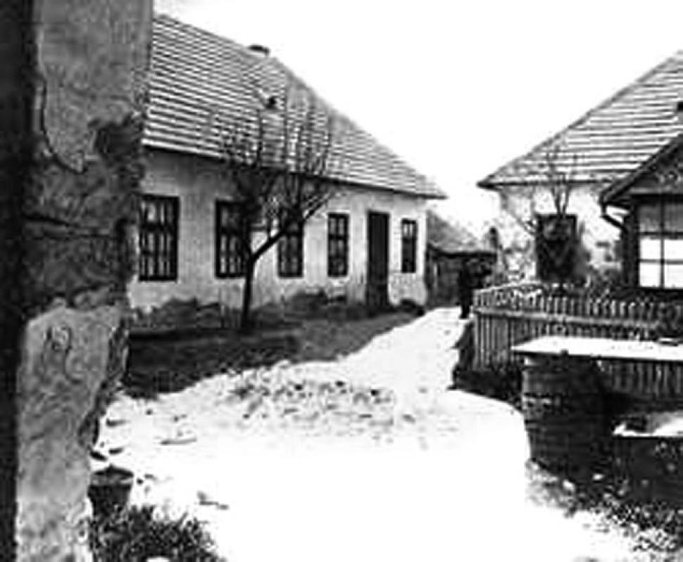 With Bela Kiss presumed dead in the war, his landlord began cleaning out his home (left) and found a grisly surprise.